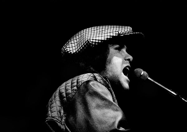 Elton John performing live in concert, late 1970s Photo: Eddie Mallin